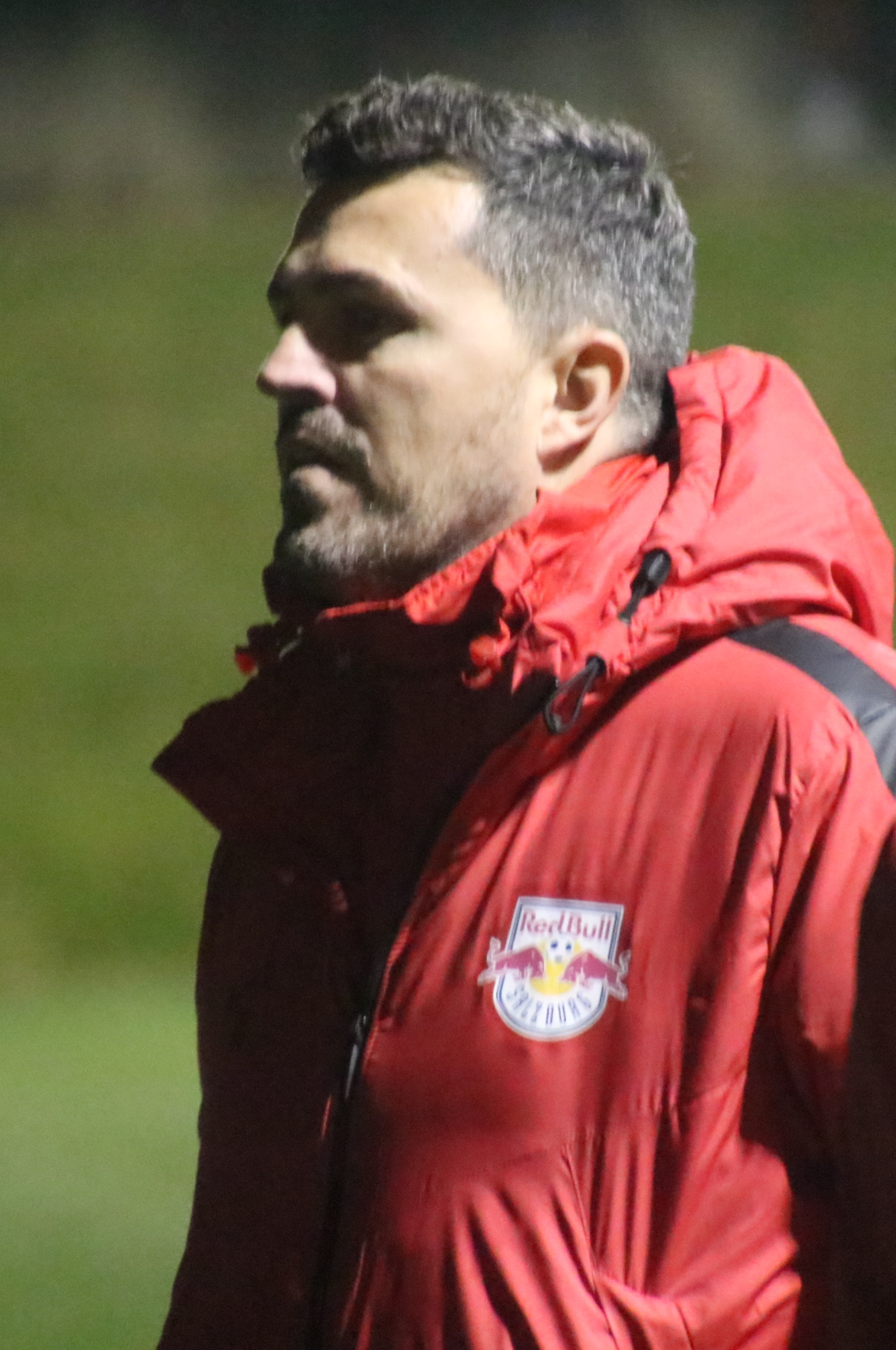 friendly match preseason